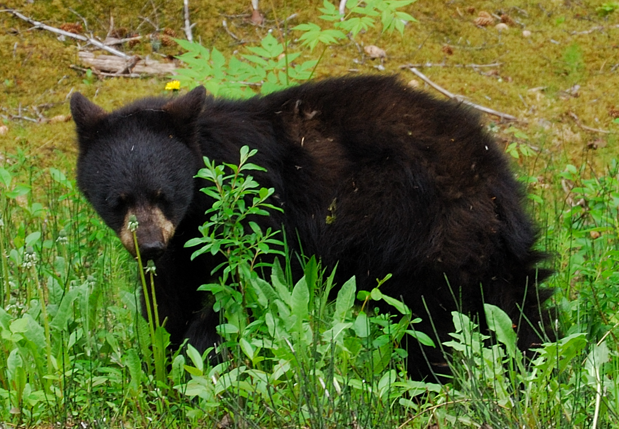 Picture of a black bear yearling at Glacier Bay National Park, Alaska. Yearling has only recently been left by its mother. Photographer: Tom Bergman Location: Glacier Bay National Park Date: June 27th, 2007 5-5.6 G Focal Length: 55mm